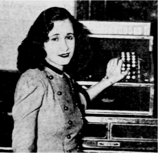 Photo of Alice Dixon Daniels at the cash register of Little Belmont, Atlantic City, 1939. A renewal search was done in periodicals for the years 1966 and 1967. There were no listings for this title. There's no evidence of renewal for the newspaper.